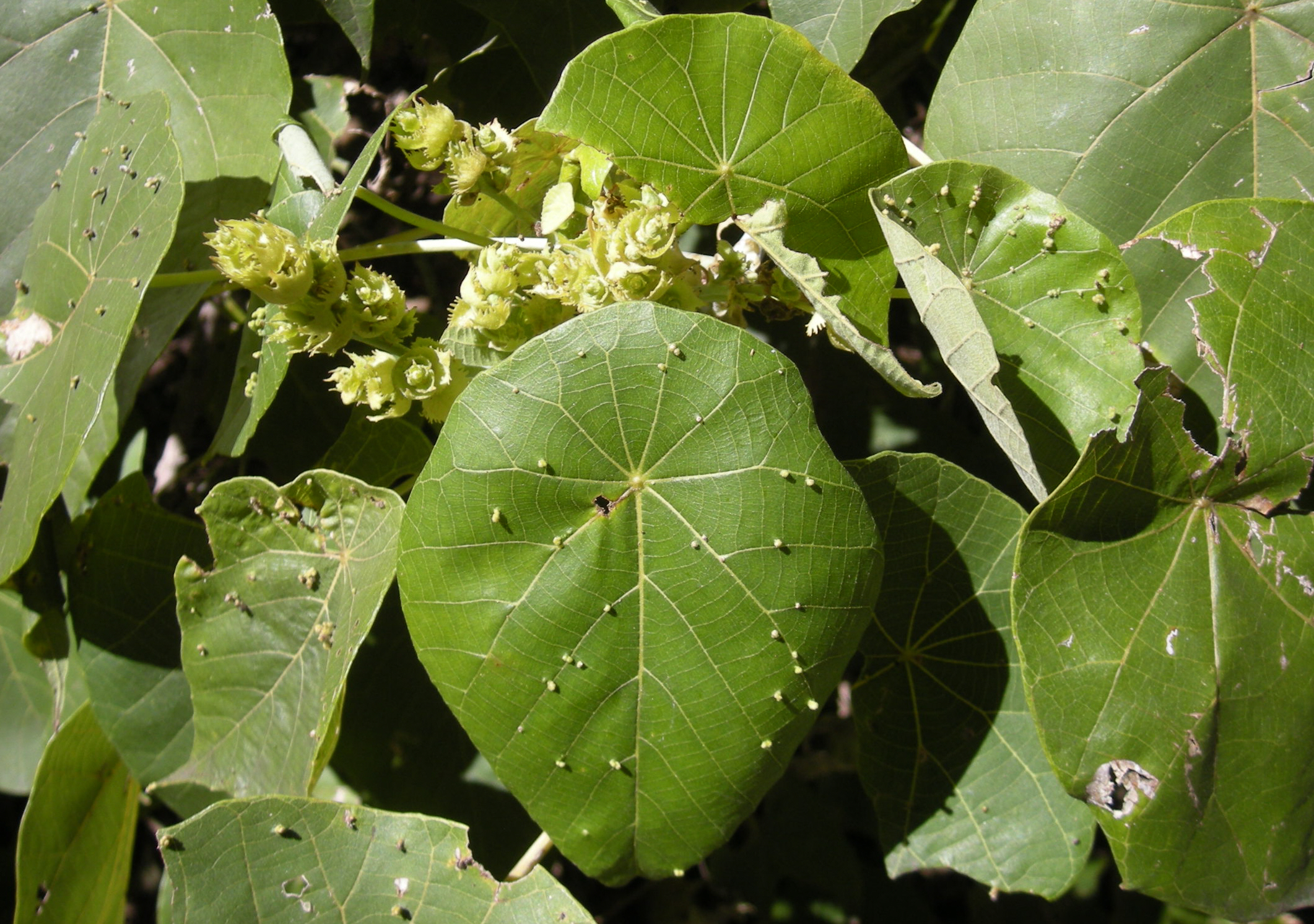 Macaranga tanarius foliage and flowers. Mount Archer National Park. Rockhampton, Queensland.